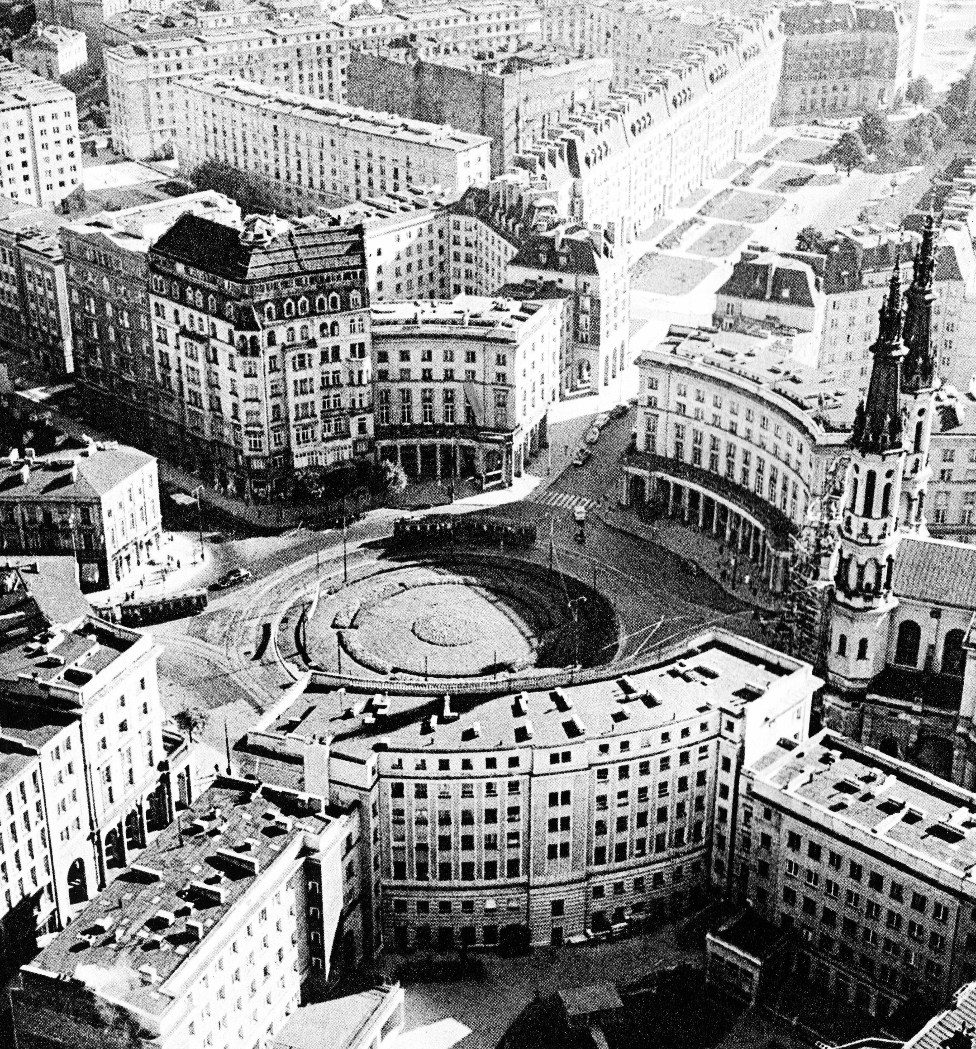 Zbawiciela Square in Warsaw